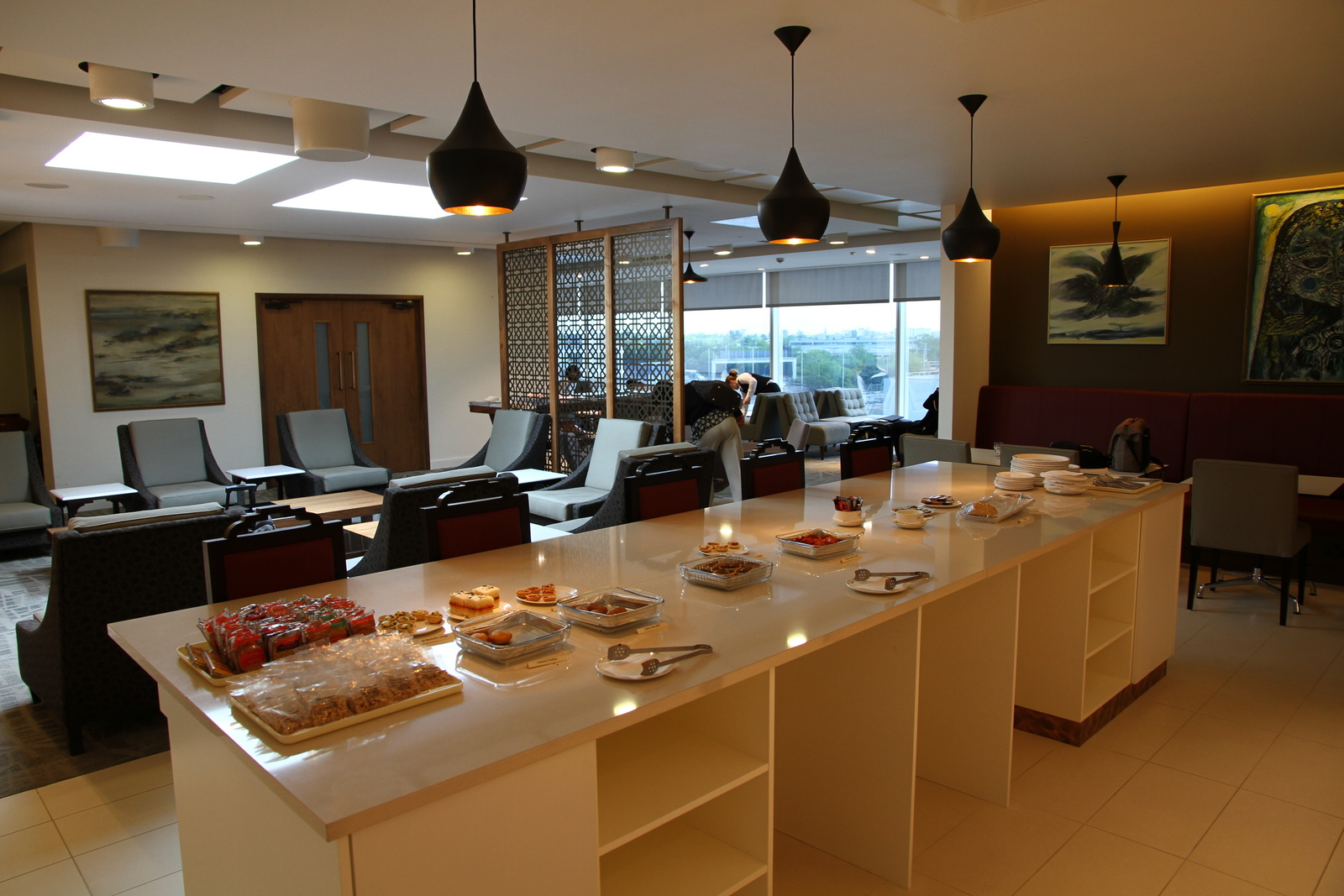 Air India Heathrow Airport lounge